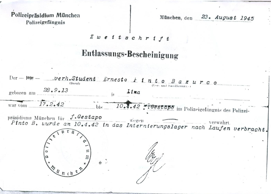 Arrest record of Ernesto Pinto-Bazurco